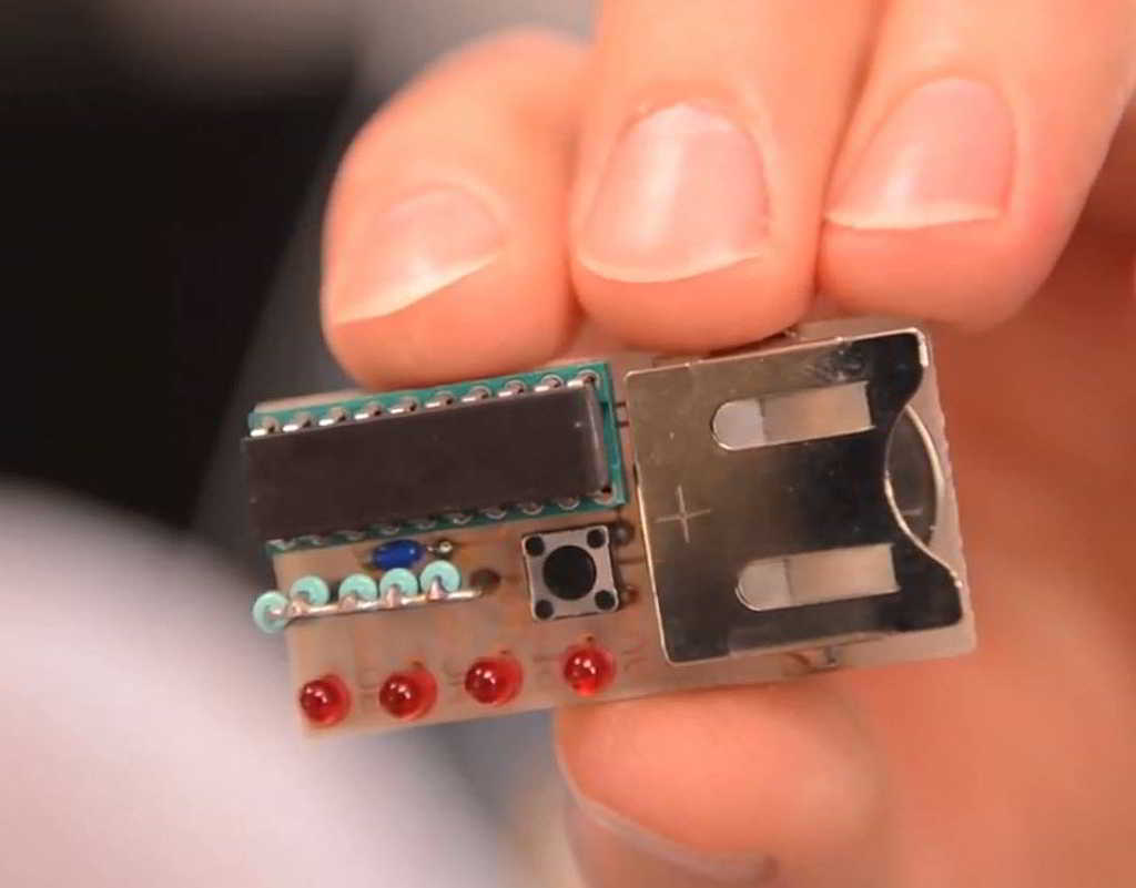 This is the first Atmel AVR prototype demo board, with a prototype die in a ceramic package. Back of board is file AVR-prototype-demo-backside